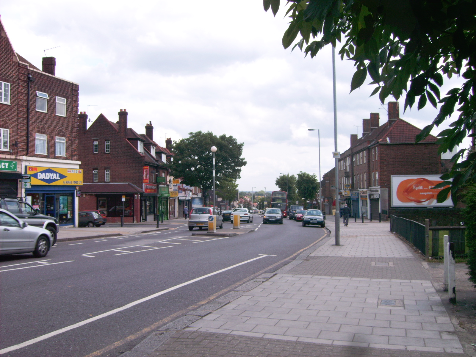 Author: Mark Hogan Description: A photo I took of Arnos Grove. The photo was taken on Bowes Road, just east of Our Lady of Lourdes Roman Catholic Church and Primary School, looking east. Arnos Grove tube station is hidden just to the left of the small bus on the left.